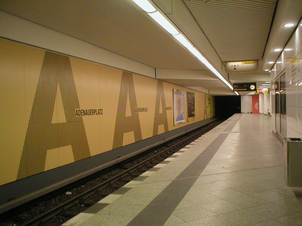 Berlin's underground station Adenauerplatz after its renovation in 2005